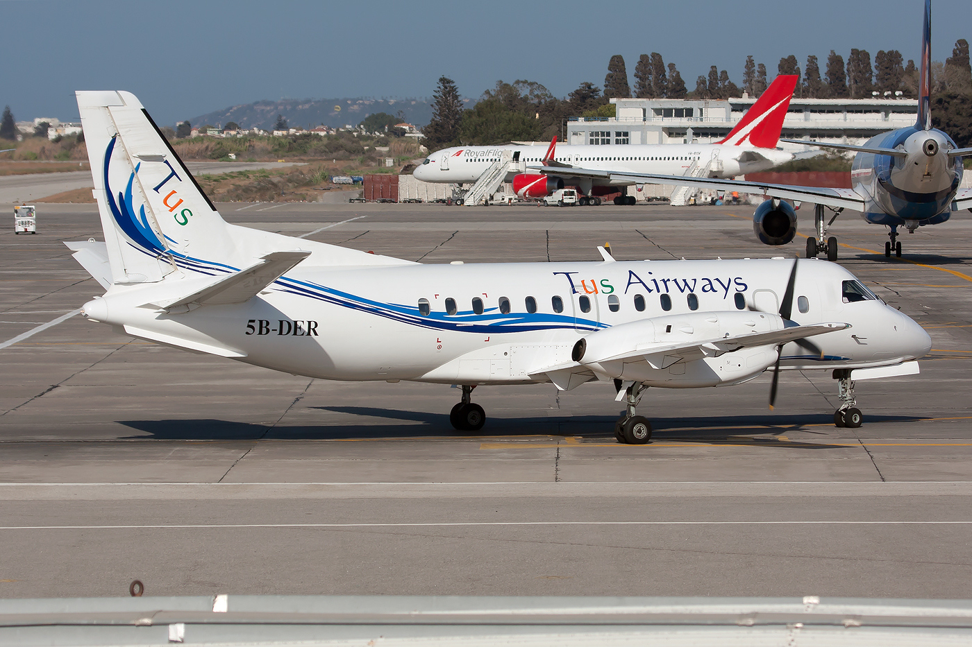 Tus Airways Saab 340B (5B-DER) at Rhodes Airport